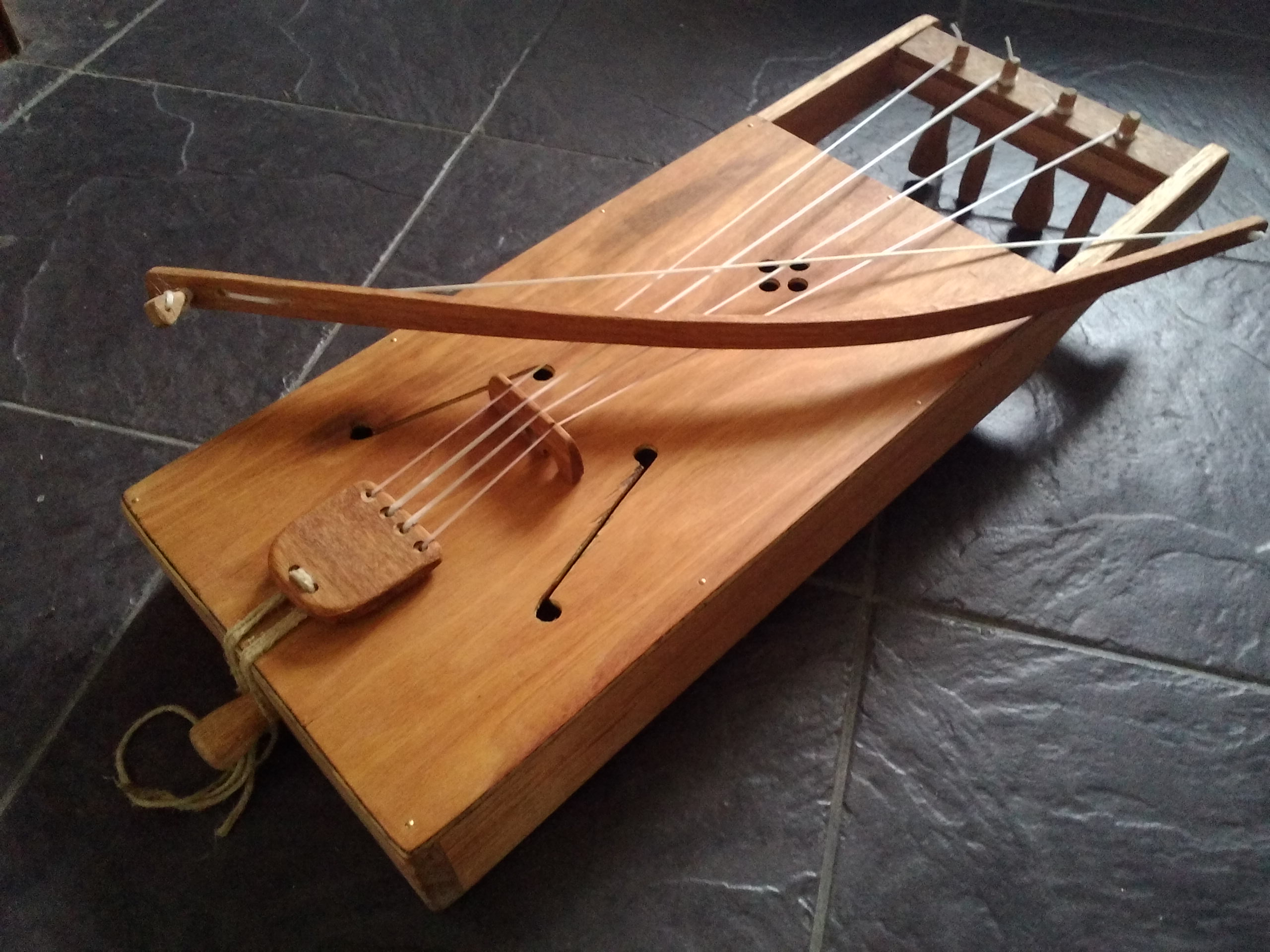 Talharpa, Tagelharpa, Bowed Lyre, By Charlie Bynum, Silver Spoon Music, Alkmaar NL, Fall 2014